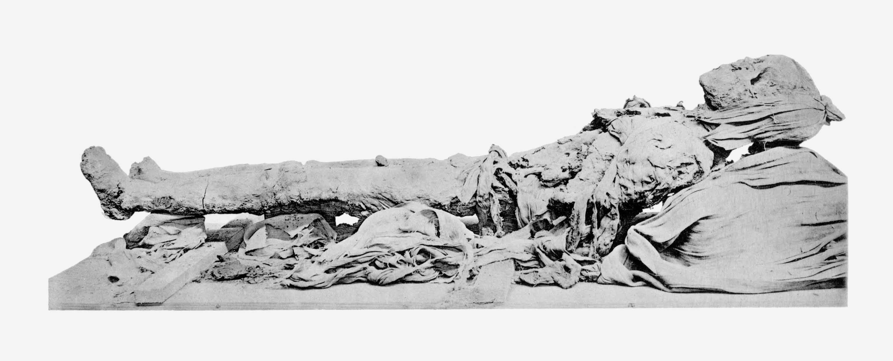 Mummy of parapoh Amenhotep III.